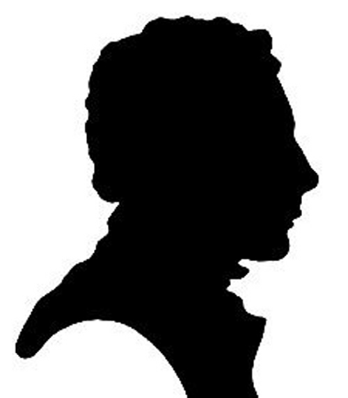 Sihouette of Keats by Charles A. Brown (1819)